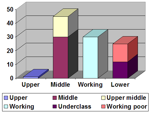 I created the illustration myself using the class model by Dennis Gilbert in The American Class Structure.